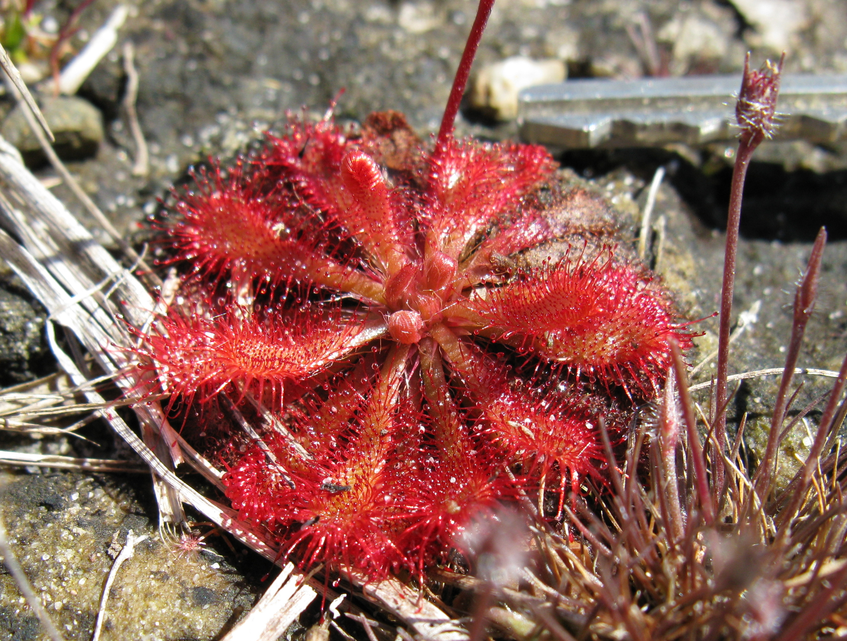 Native, cool season, perennial herb with very short stems. Leaves form a basal rosette; lamina are spathulate, narrowed to a broad, flat petiole, the whole 8–20 mm long and 4–6 mm wide. Flowerheads have up to 15 flowers and are 1-sided, rarely branched. Flowers are white or pink. Flowering is from spring to summer. Grows in wetlands and heath, especially widespread in coastal areas.